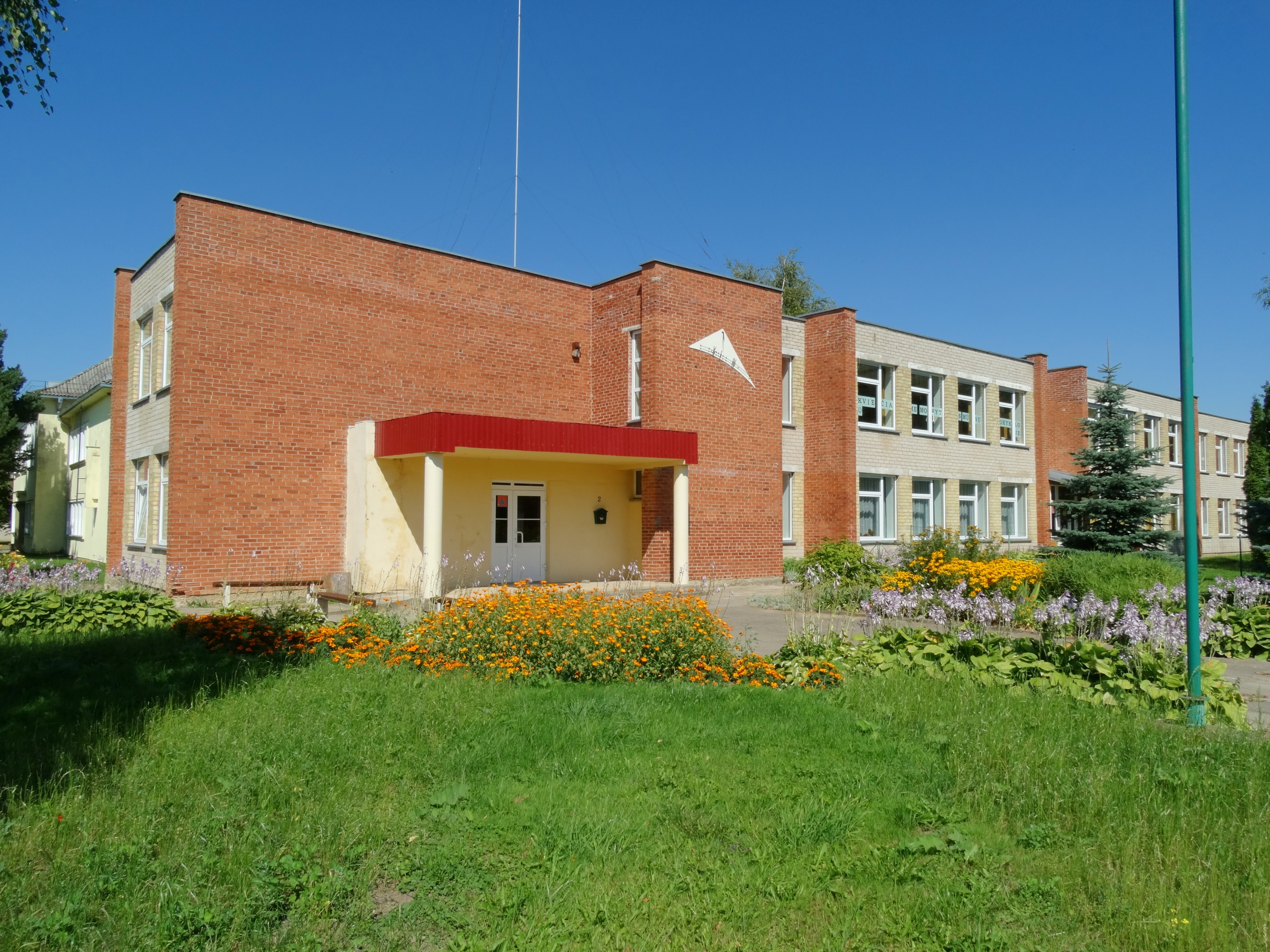 Kriukai Basic School, Joniškis District, Lithuania